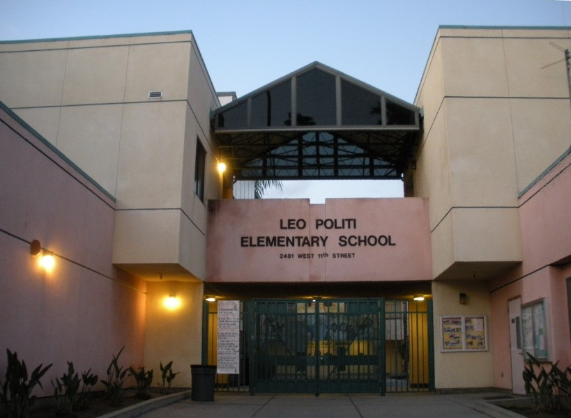 Leo Politi Elementary School, LAUSD, Los Angeles, California, which was named for artist and author Leo Politi, who wrote many children's books